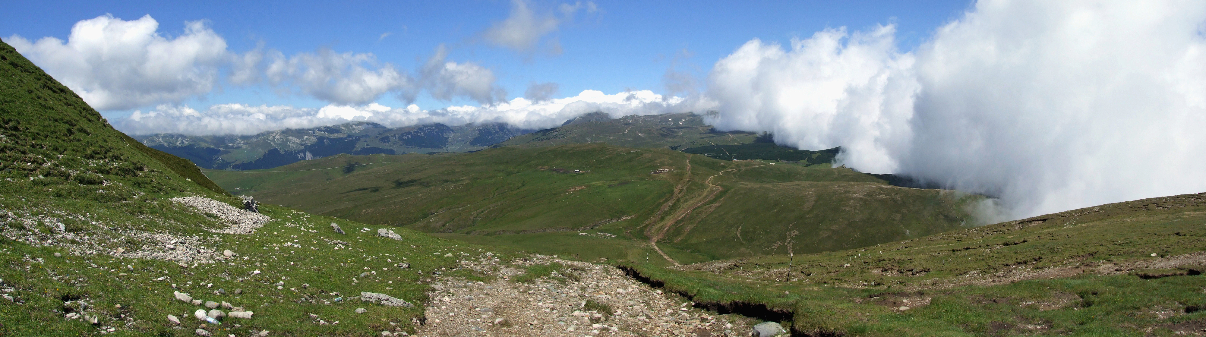 Bucegi mountains, Romania